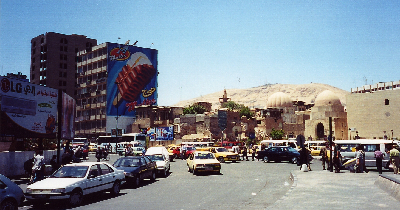 Baramkeh, Damascus. Mount Qassiuon in the background.